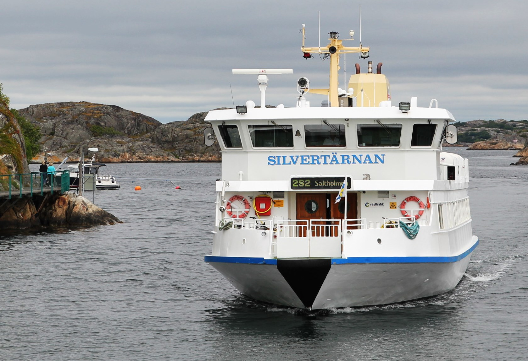 Ferry Silvertärnan